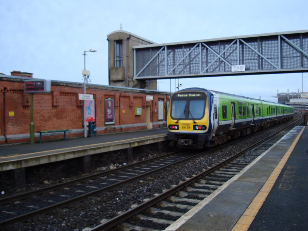 IÉ 29000 Class diesel multiple unit 29129 at Drumcondra, Dublin, Ireland